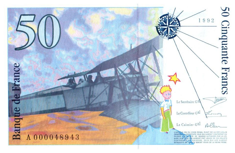 50 francs